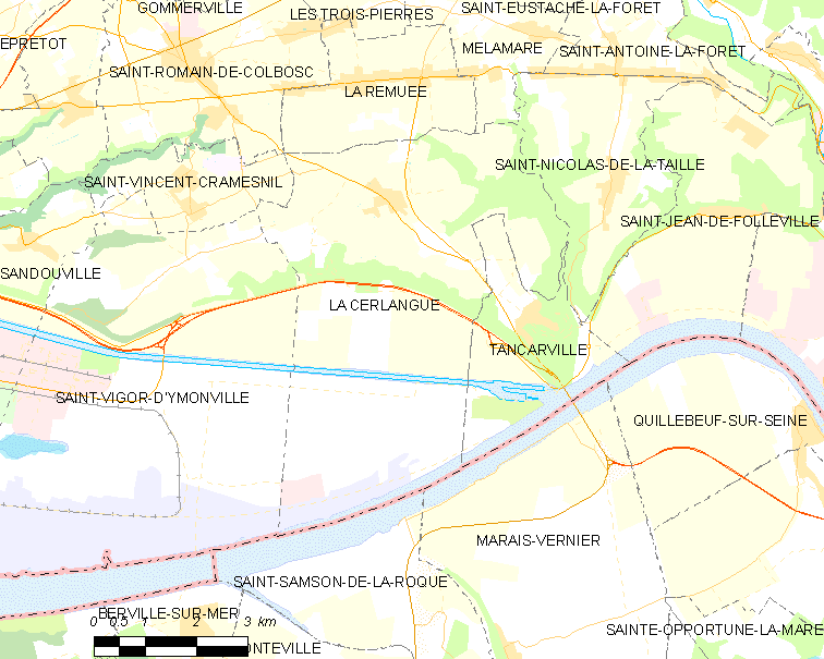 Map of French municipality La Cerlangue